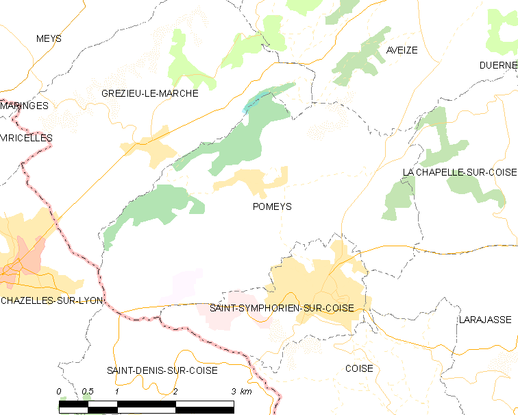 Map of French municipality